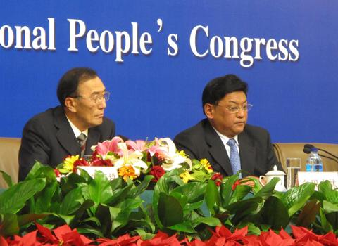 Qiangba Puncong (left) and Padma Choling (right)